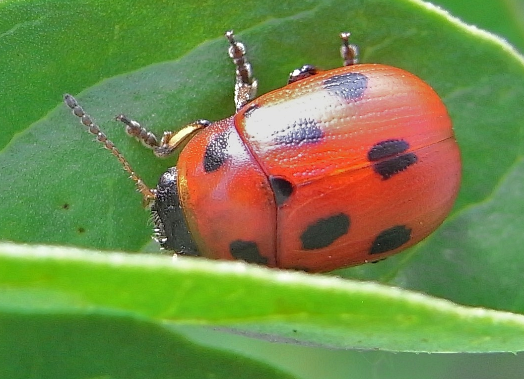 Gonioctena fornicata from Hungary, near Mezötur at 2010-05-30 Ricoh R8